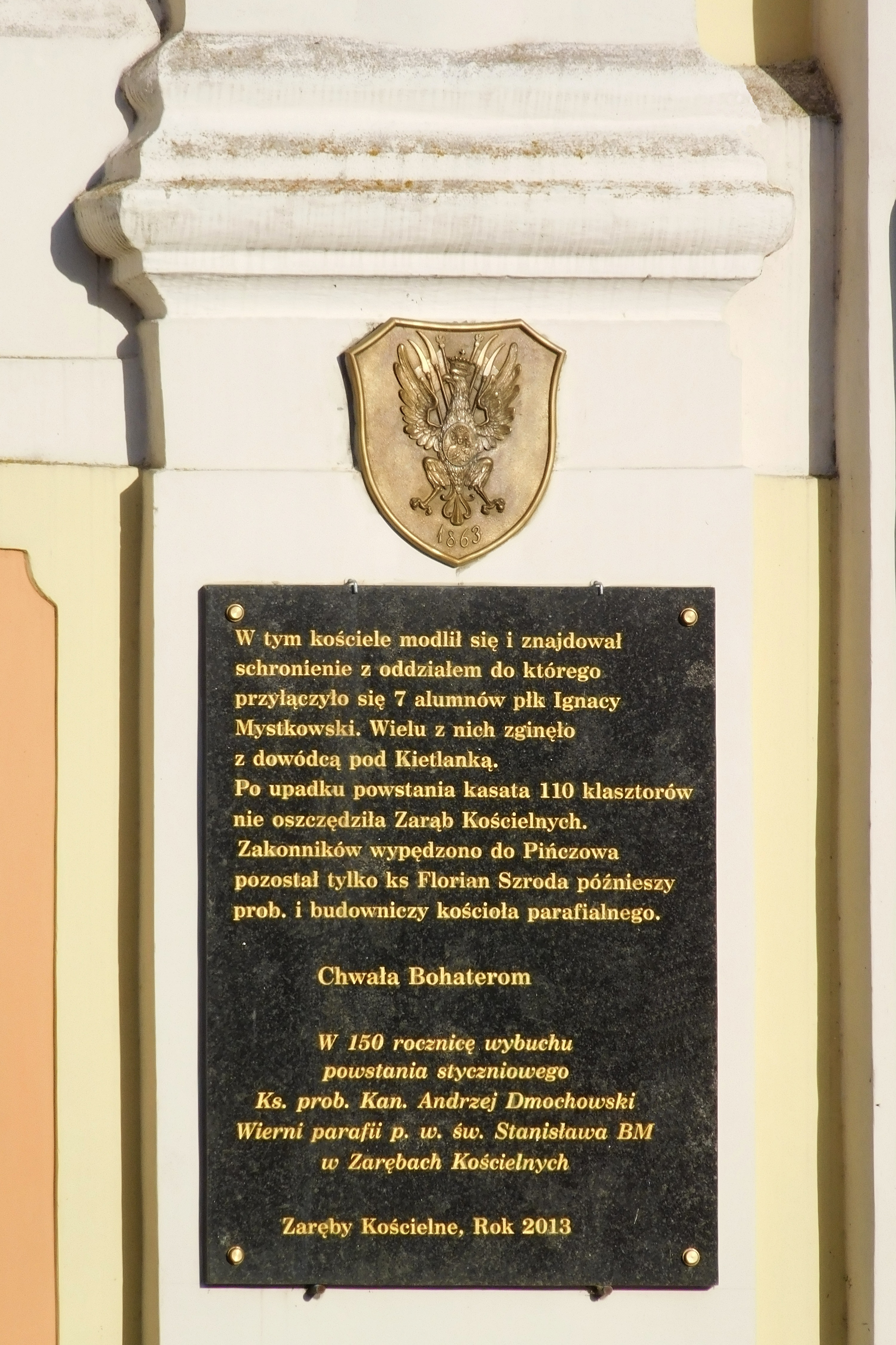 Memorial plaque in the church of Simon the Zealot and Jude the Apostle in Zaręby Kościelne, Poland